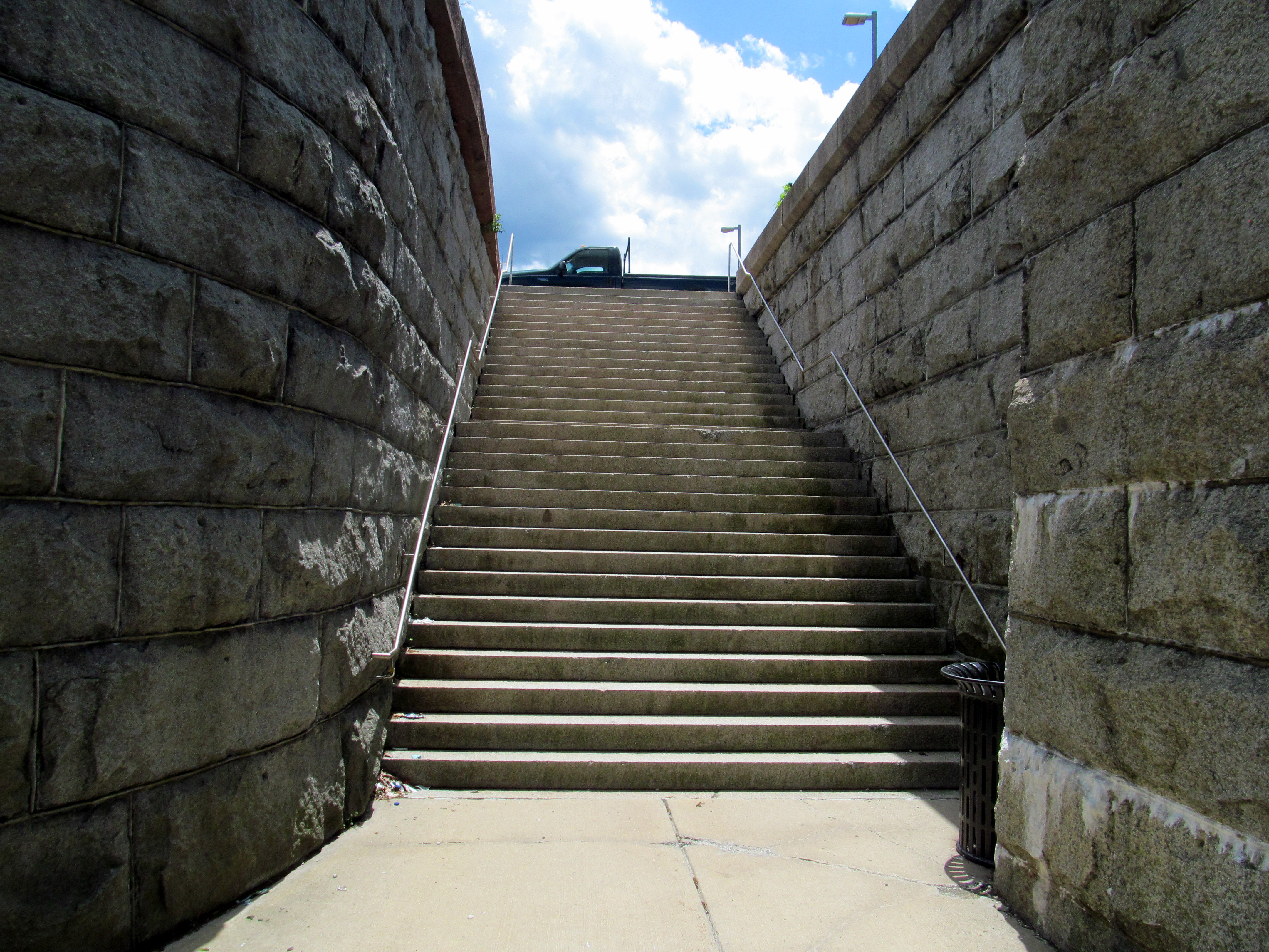 Stone staircase from Court Street in Brockton, photographed in June 2017. The staircase was built in the late 1890s as access to the newly-elevated station; it now serves as access to the modern MBTA station.